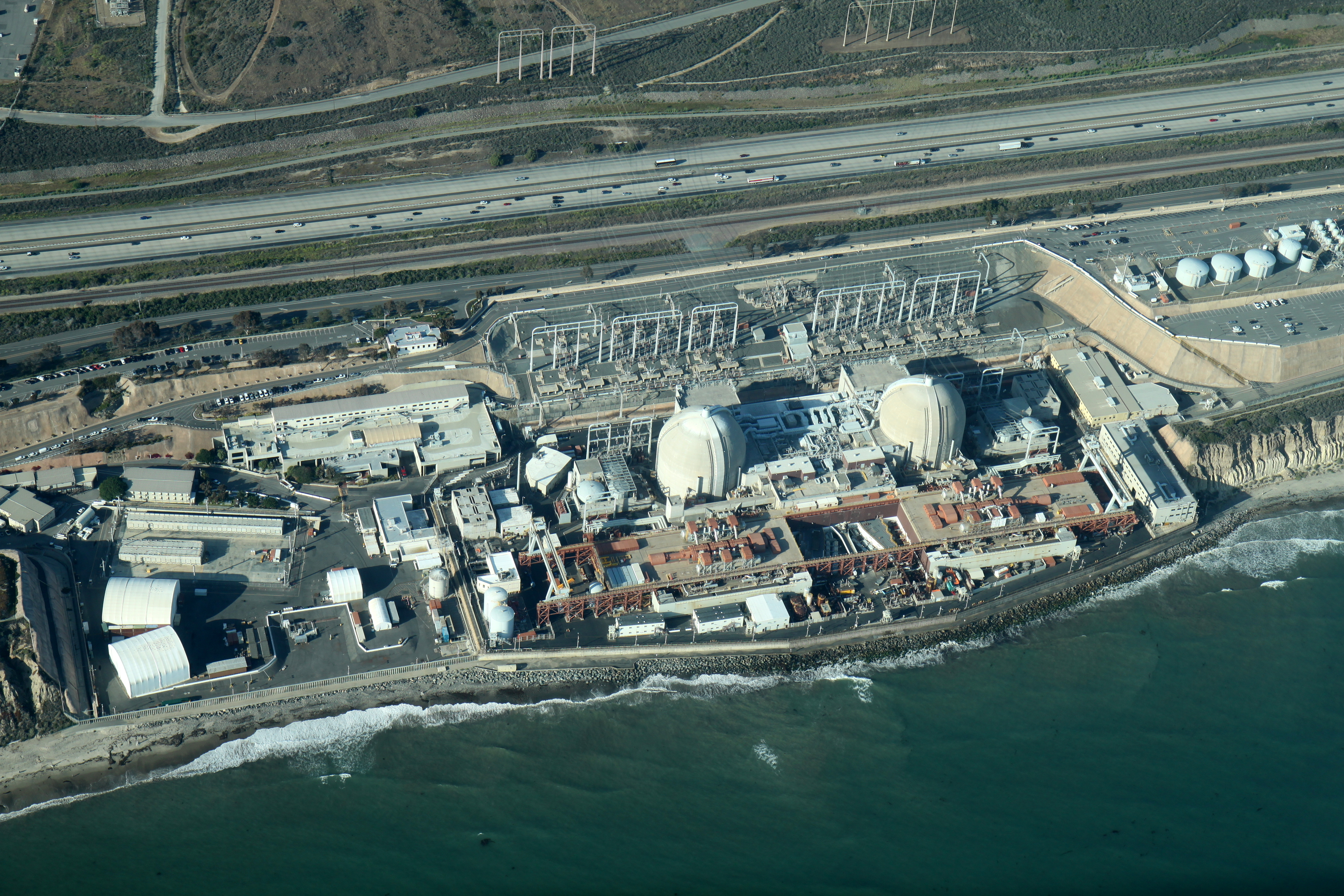 Aerial view of the San Onofre Nuclear Generating Station in San Diego County, California, May 26, 2012.